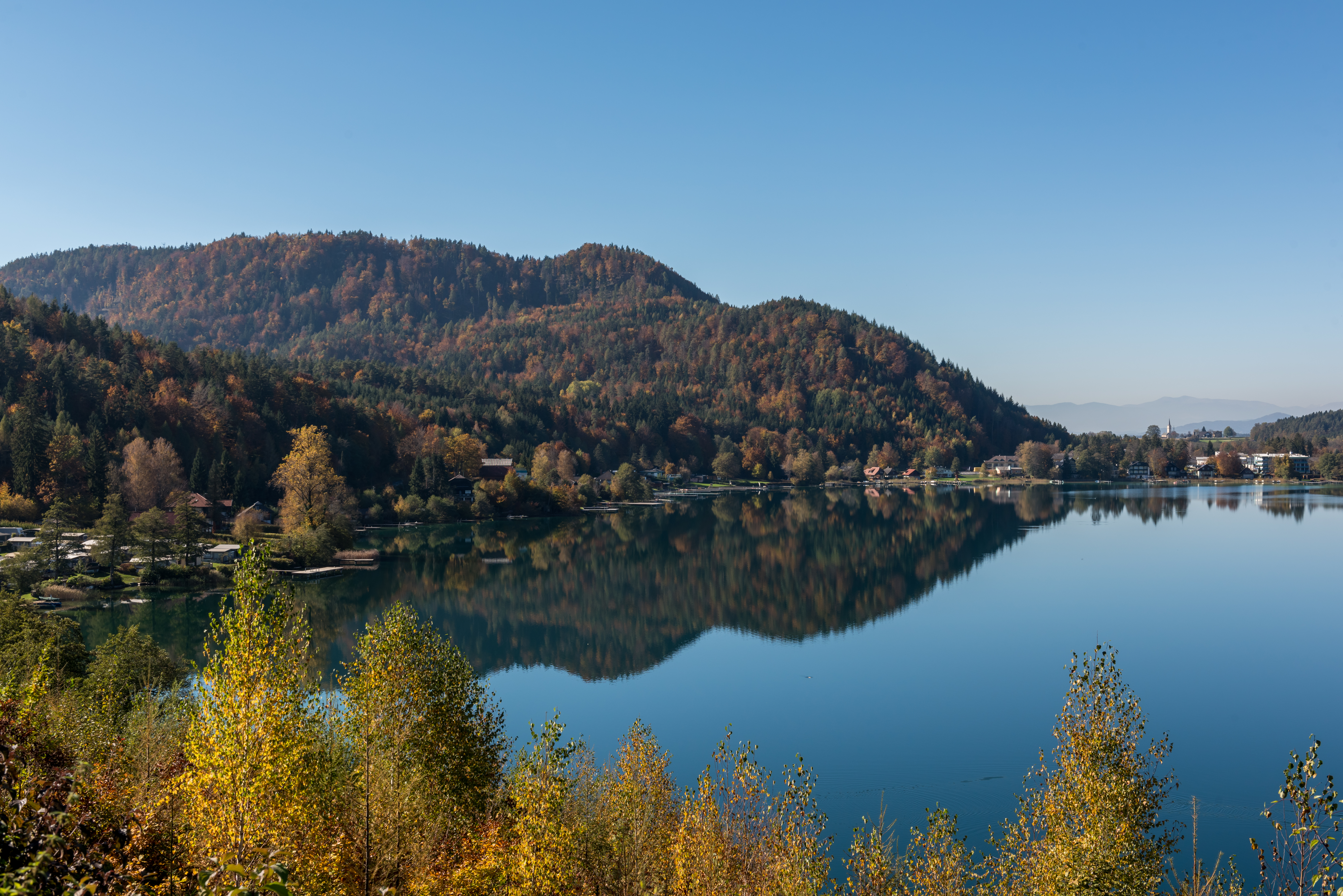 View of Lake Klopein with Seelach, municipality Sankt Kanzian am Klopeiner See, district Völkermarkt, Carinthia, Austria, EU